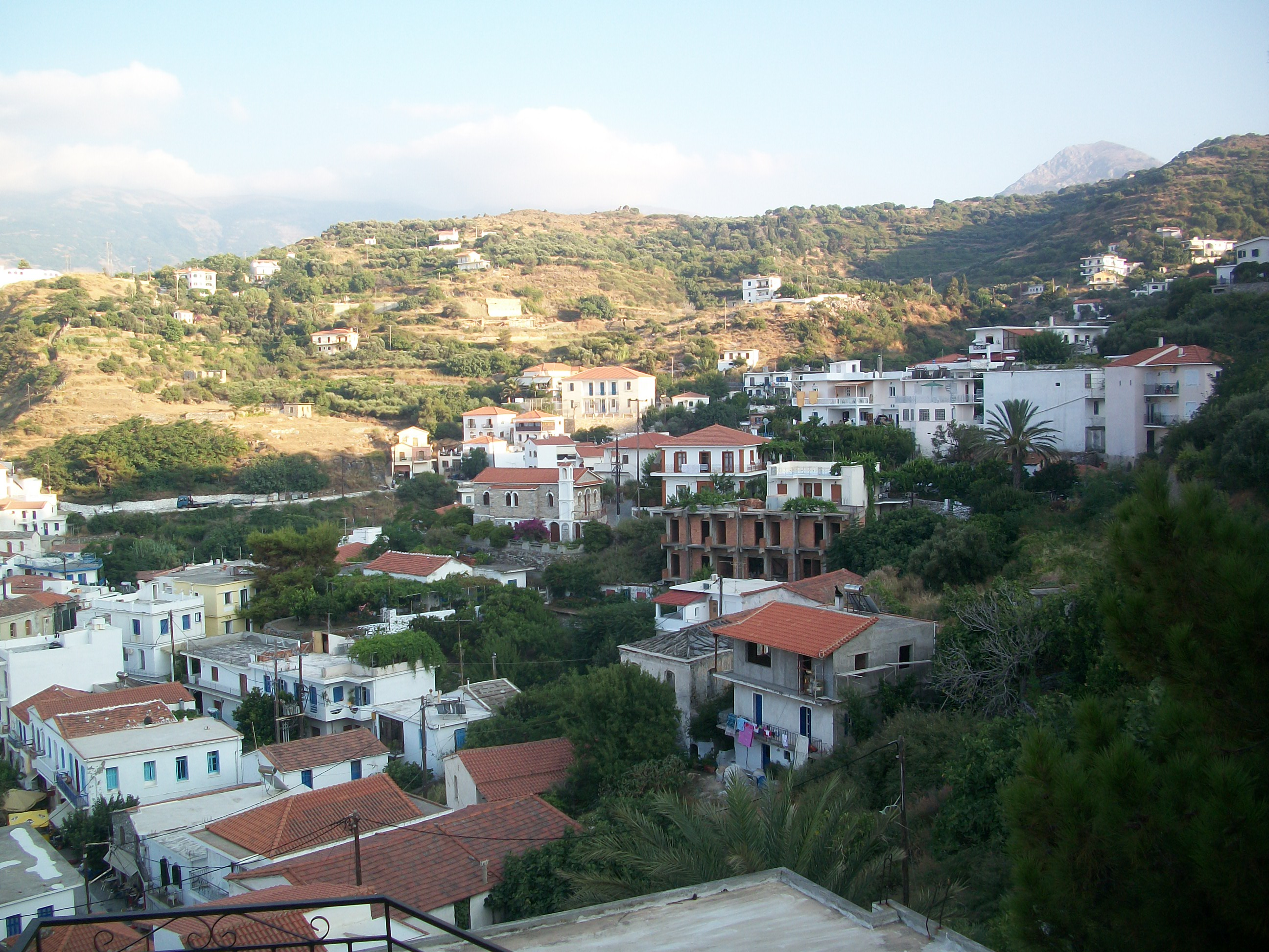 The village of Efdilos during the afternoon